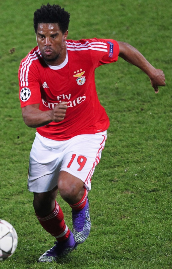 Eliseu Pereira